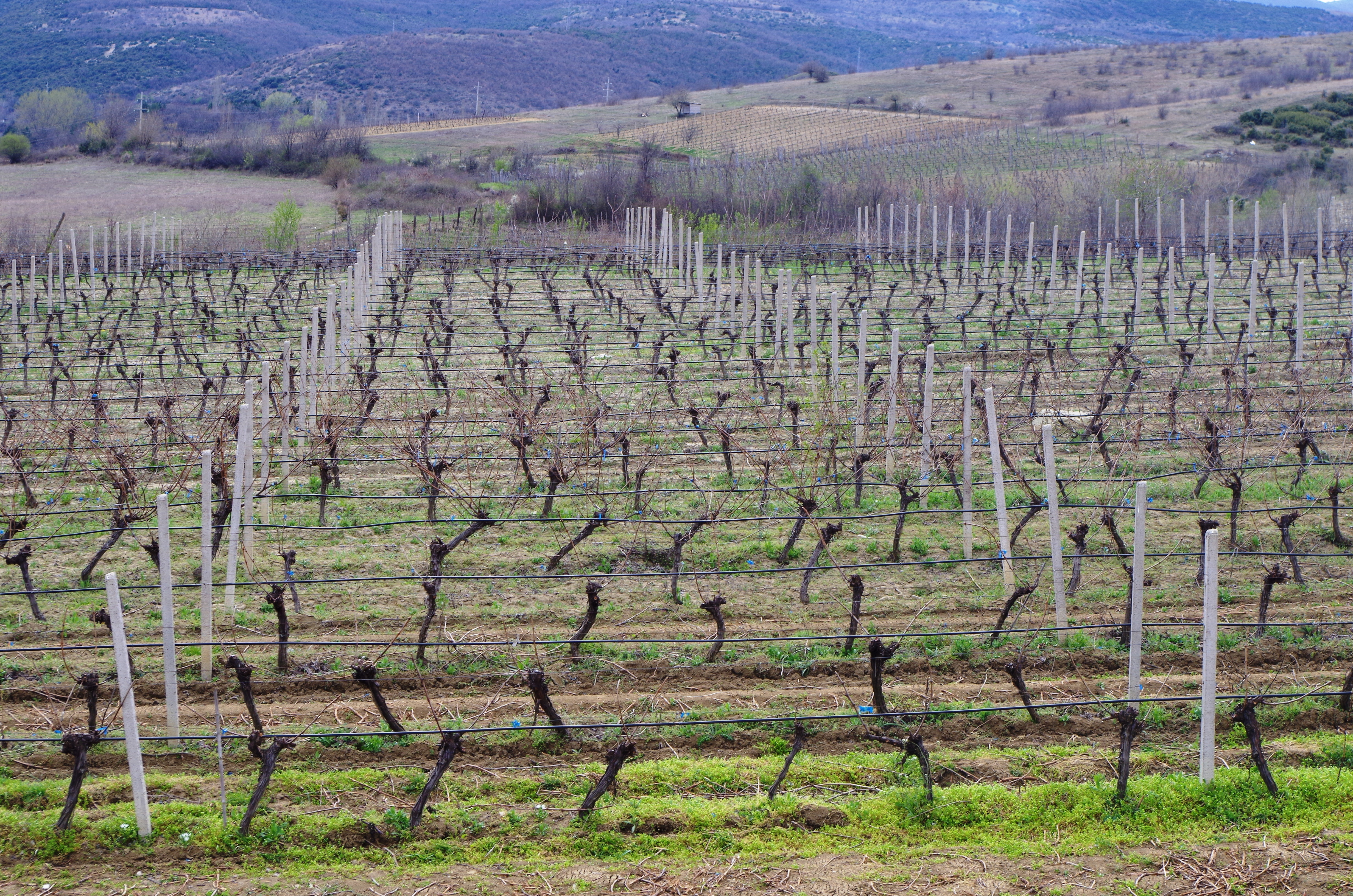 Own vineyards of the winery "Popova Kula", near Demir Kapija